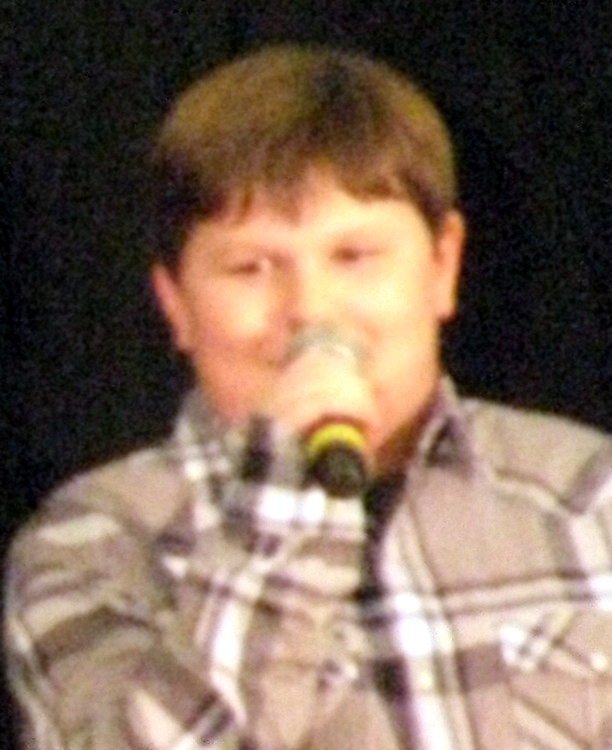 Robert Capron at the Diary of a Wimpy Kid premiere